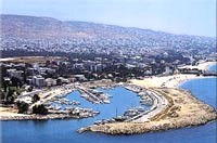 View over the suburb of Glyfada from the sea towards the mountain